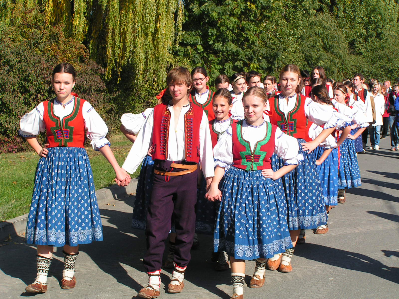 Folk dance group Malá Rusava during the celebration in Všetuly.